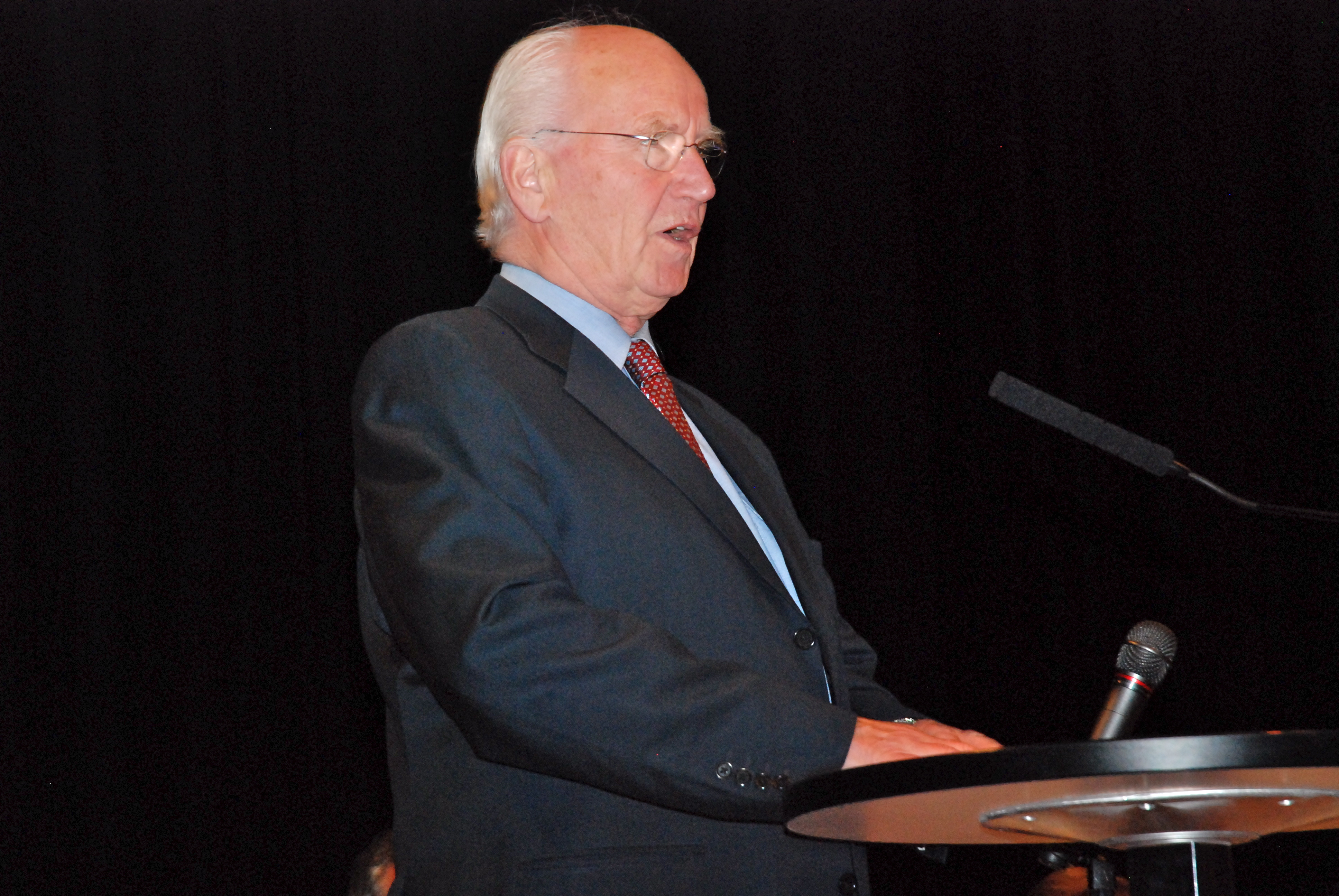 Stoltenberg